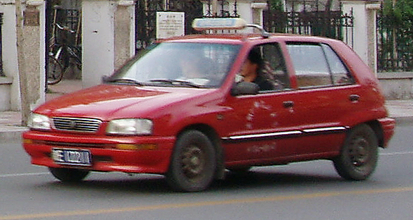 1999-2007 Tianjin Xiali TJ7101. Crop of File:TianjinMachangdao.jpg by Fanghong.